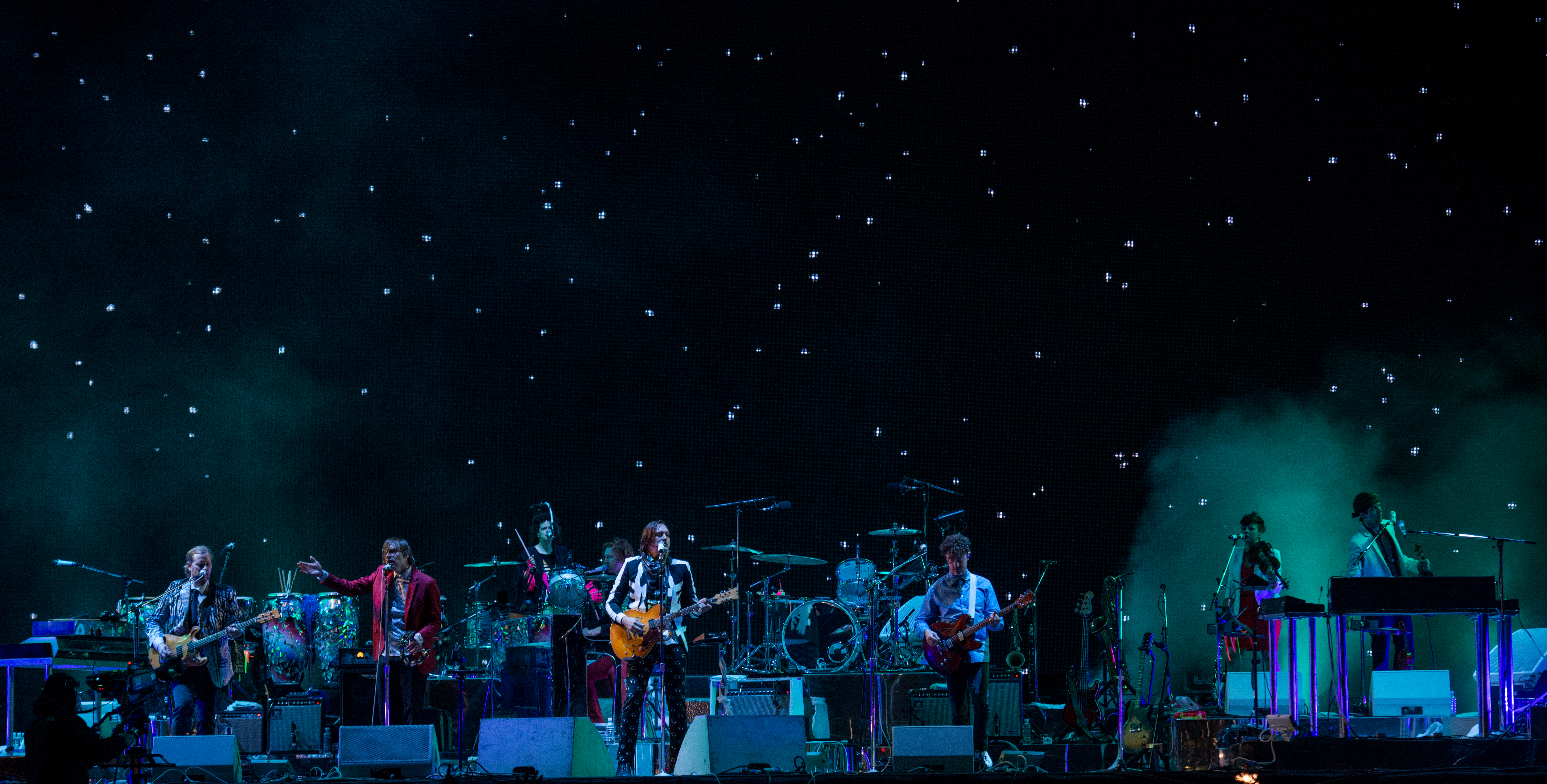 Arcade Fire Live in Concert